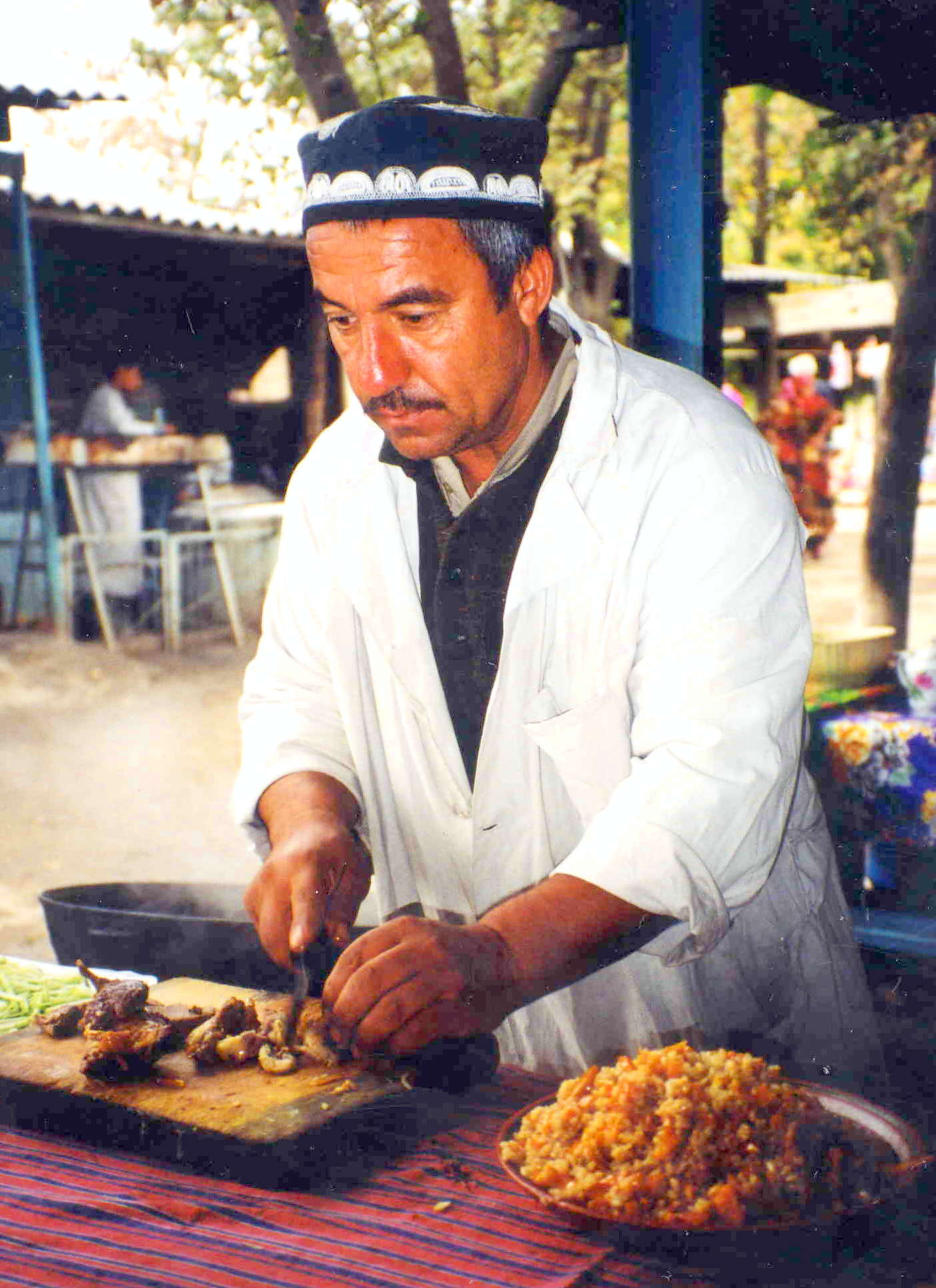 Tajik man making 'plov', the national dish of Tajikistan, made of rice, carrots, onions, spices, and goat meat/mutton.